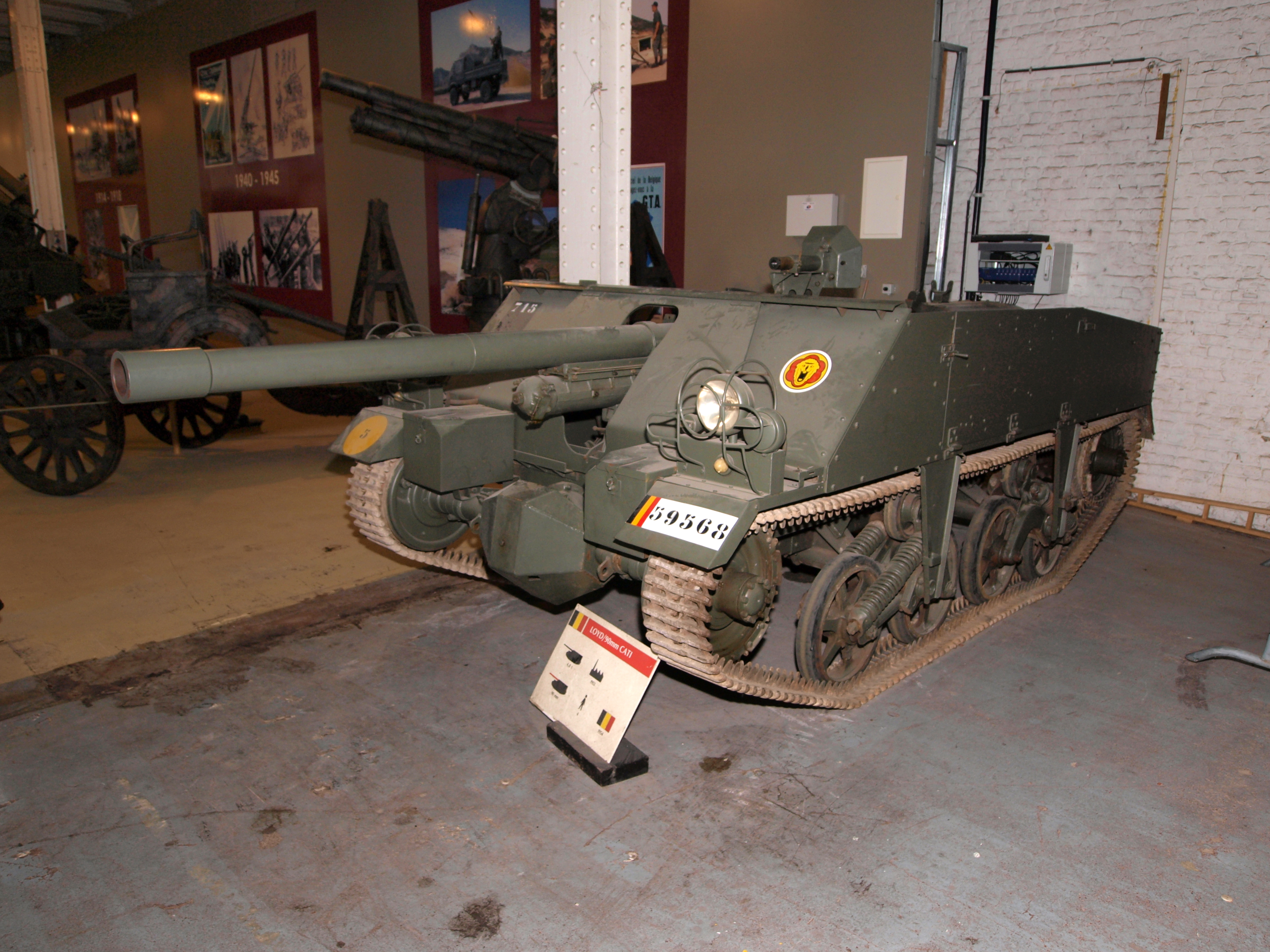 Photo taken at the Royal Military History Museum, Brussels, Belgium.